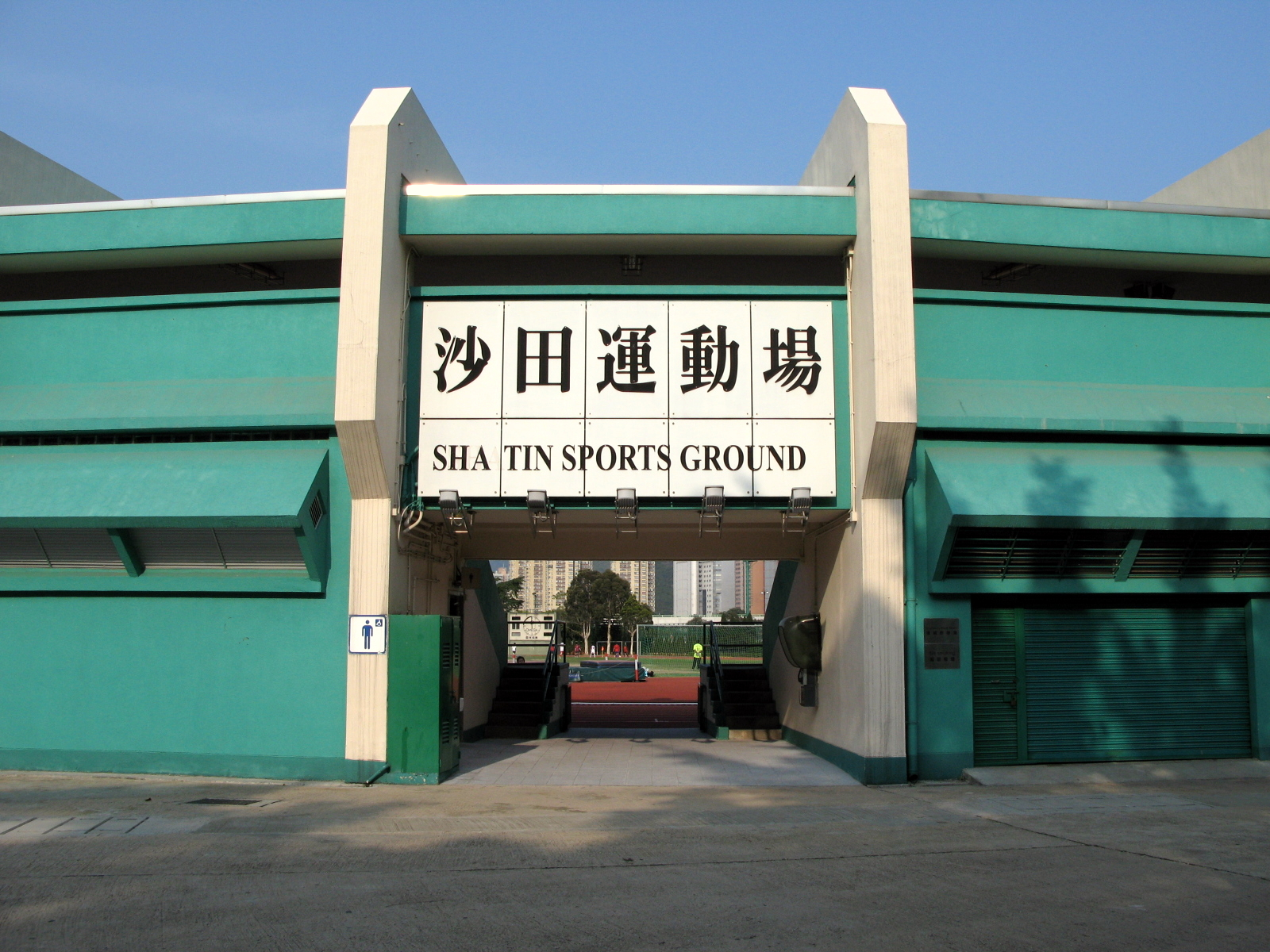 沙田運動場入口 Sha Tin Sports Ground Enterance